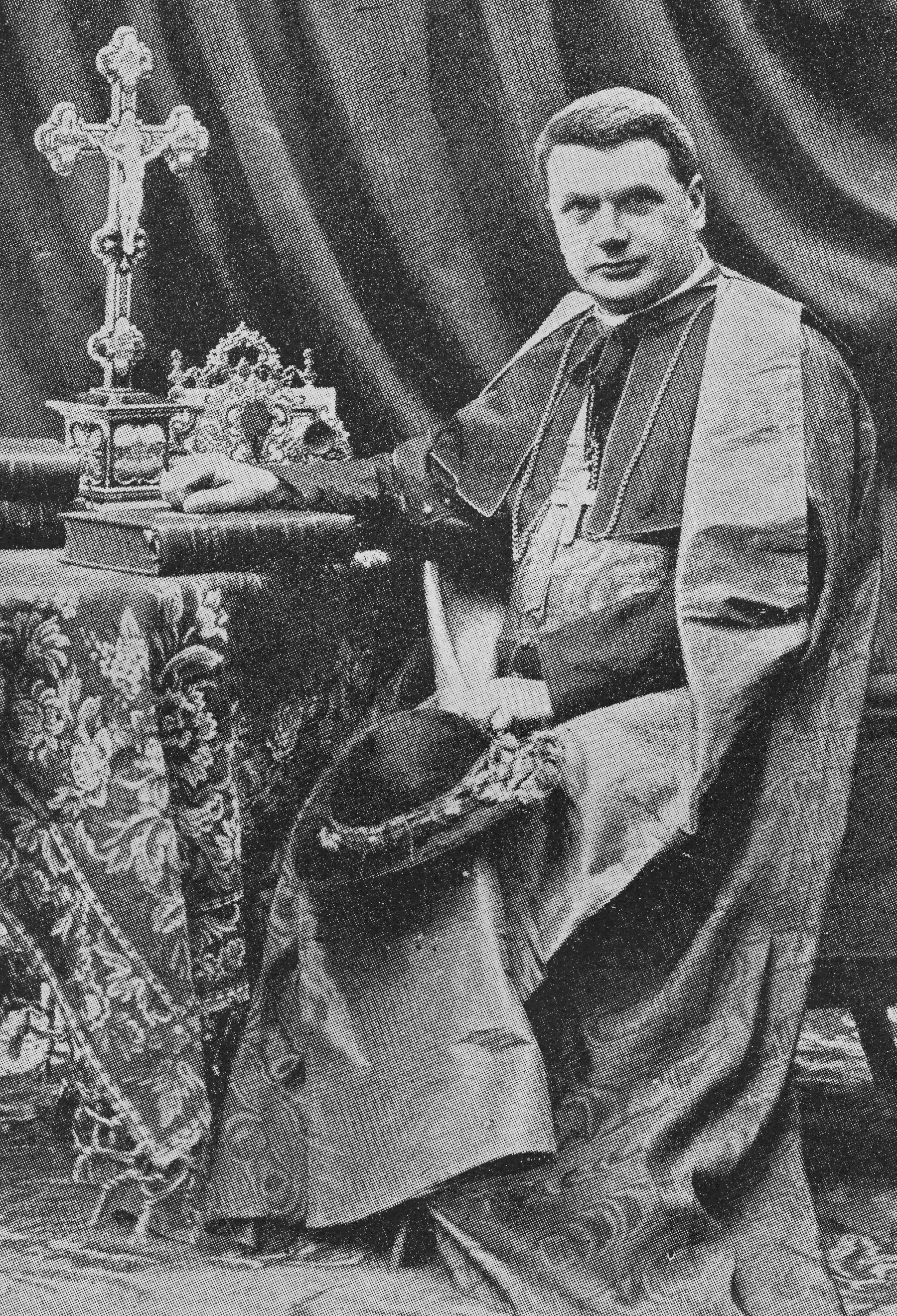 Pietro Maffi (October 12, 1858—March 17, 1931)